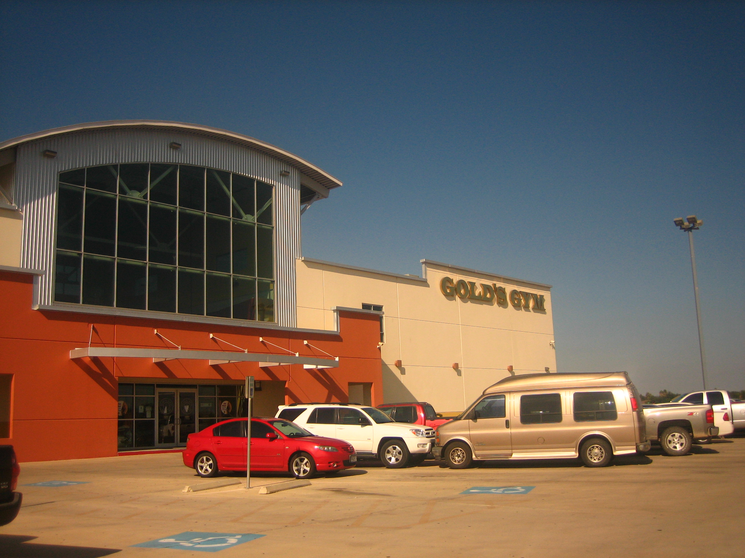 Gold's Gym, Laredo, Texas. I took photo on Oct. 26, 2008. Billy Hathorn (talk) 02:57, 27 October 2008 (UTC)